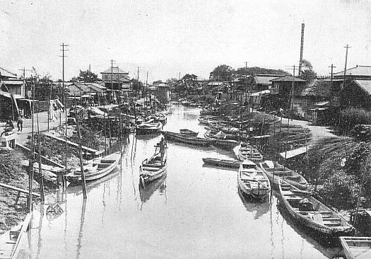 Urayasu circa 1930